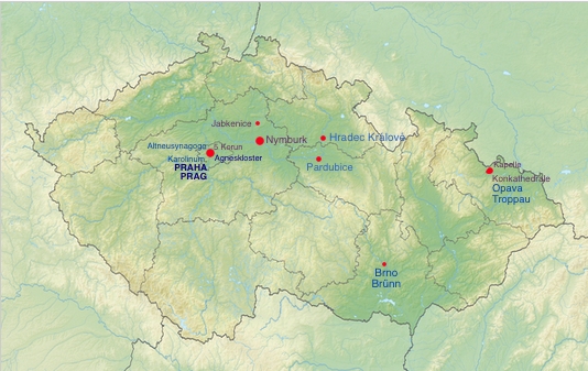 Distribution of Brick Gothic buildings in the Czech Republic